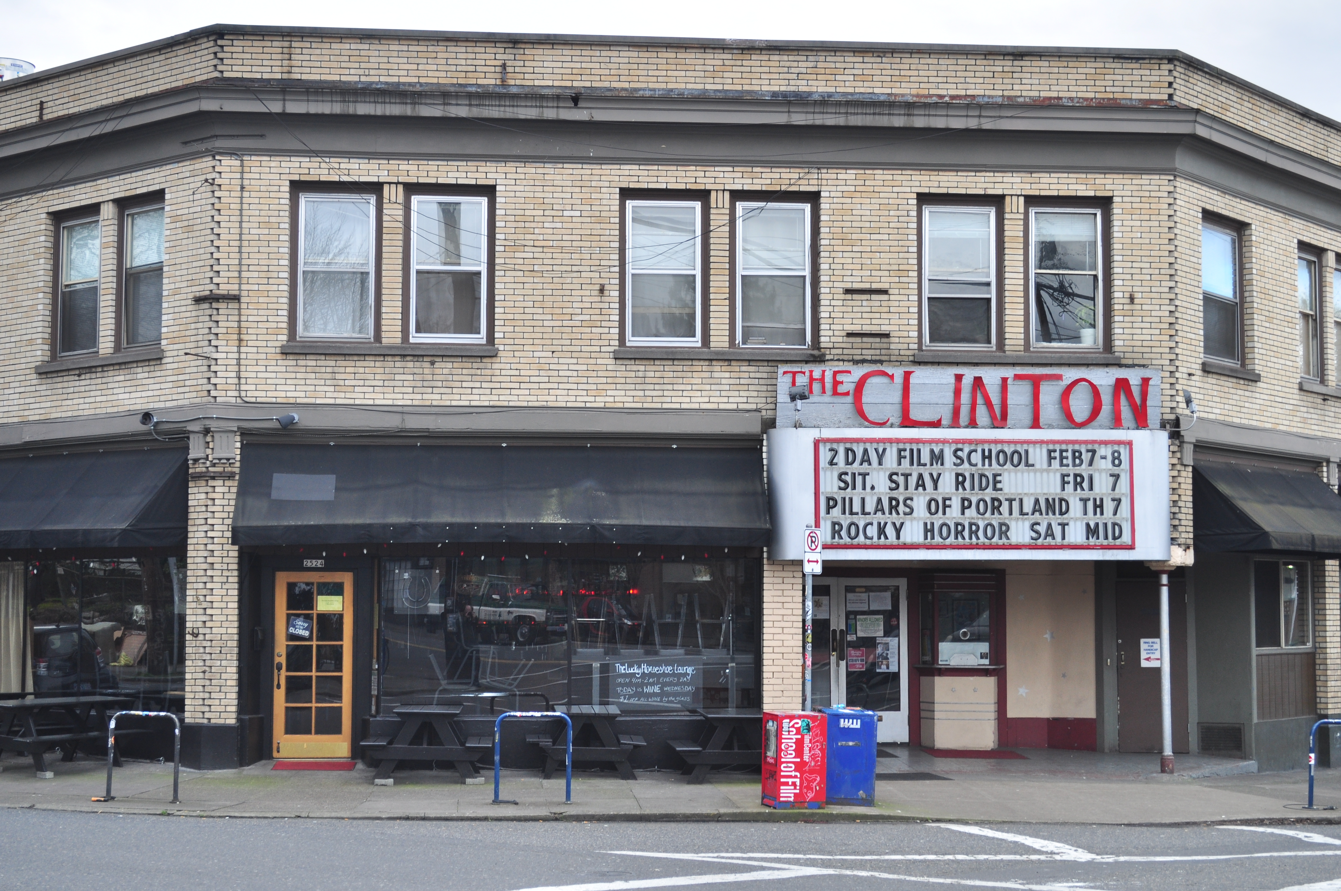 Clinton Street Theater (Portland's oldest cinema) SE Clinton at SE 26th, Portland, Oregon.